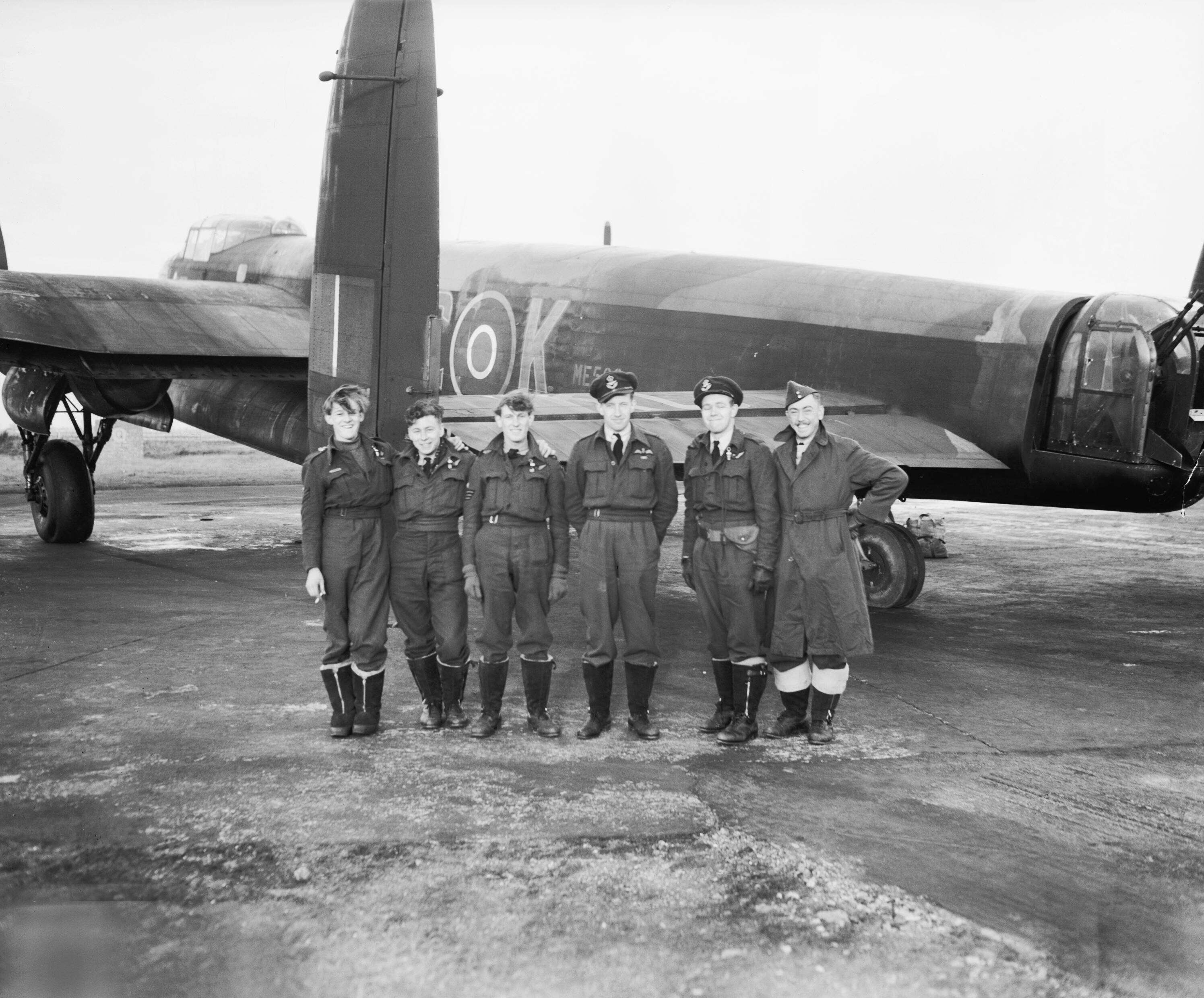 Royal Air Force 1939-1945- Bomber Command Flying Officer J Sanders DFC (third from right), and his cheerful crew of No 617 Squadron with their Lancaster, ME562/KC-K, following the successful daylight operation against the Tirpitz in Tromso Fjord in Norway on 12 November 1944.